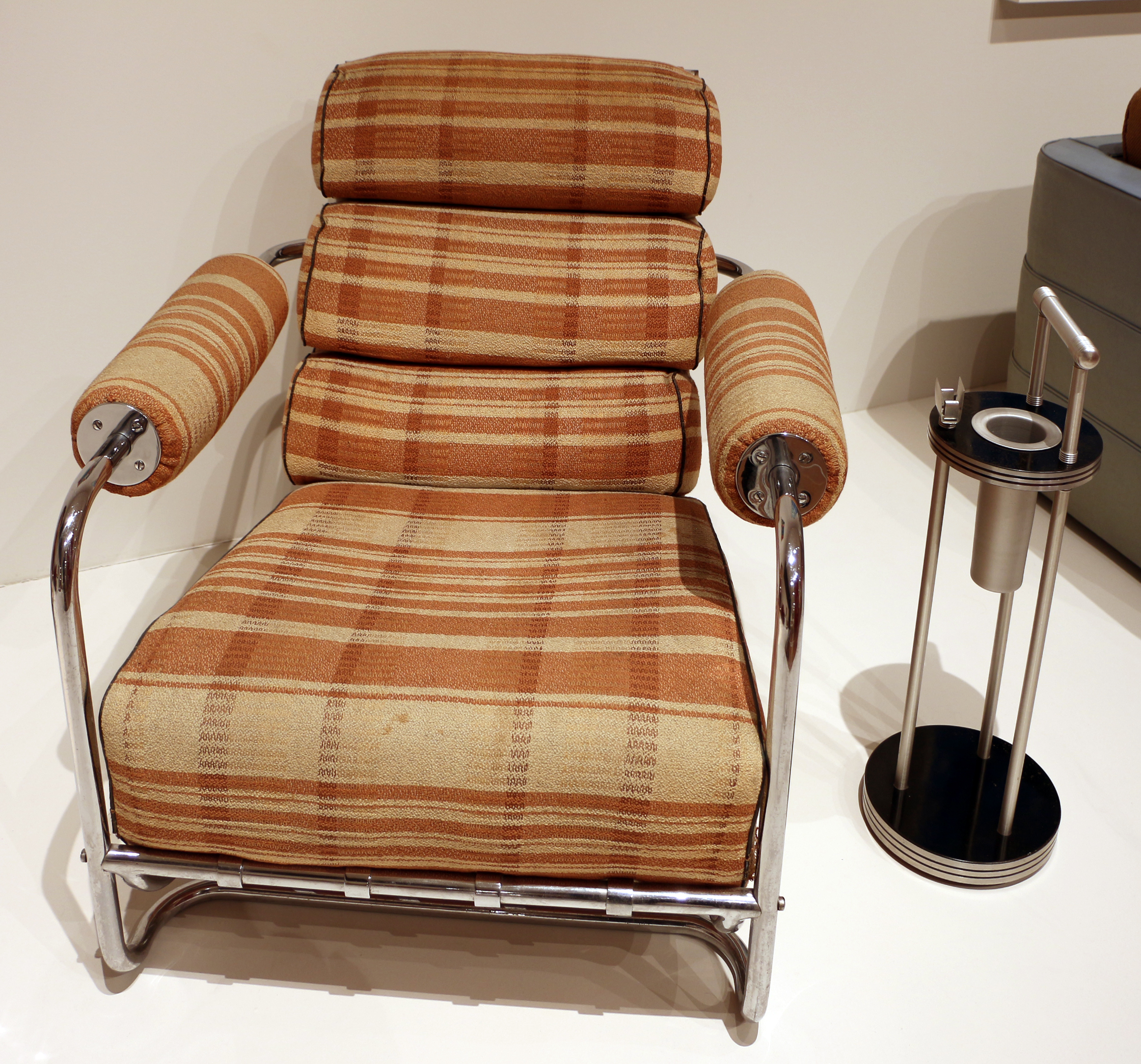 Furniture in the Milwaukee Art Museum